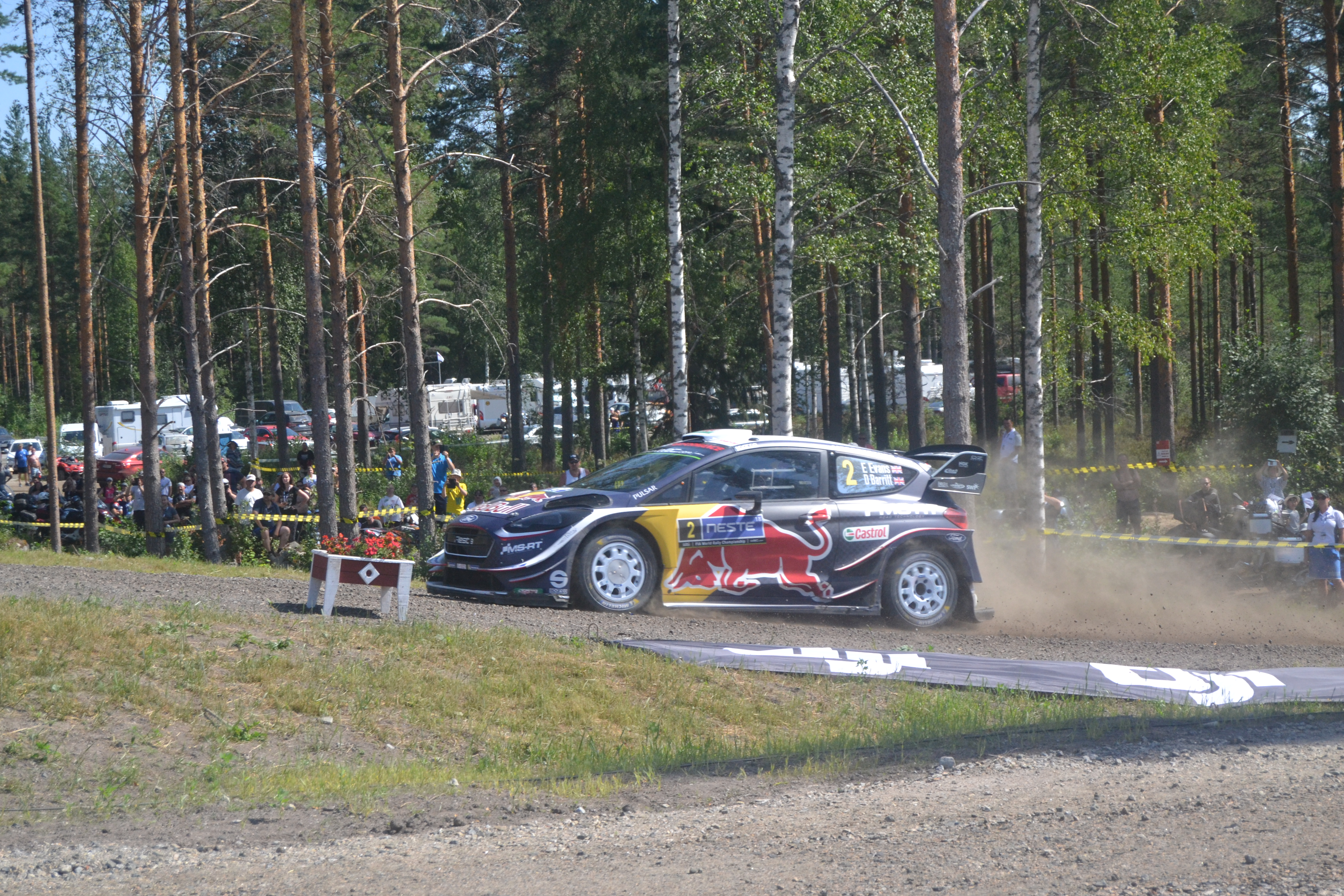 Elfyn Evans at second Ruuhimäki stage at Rally Finland 2018